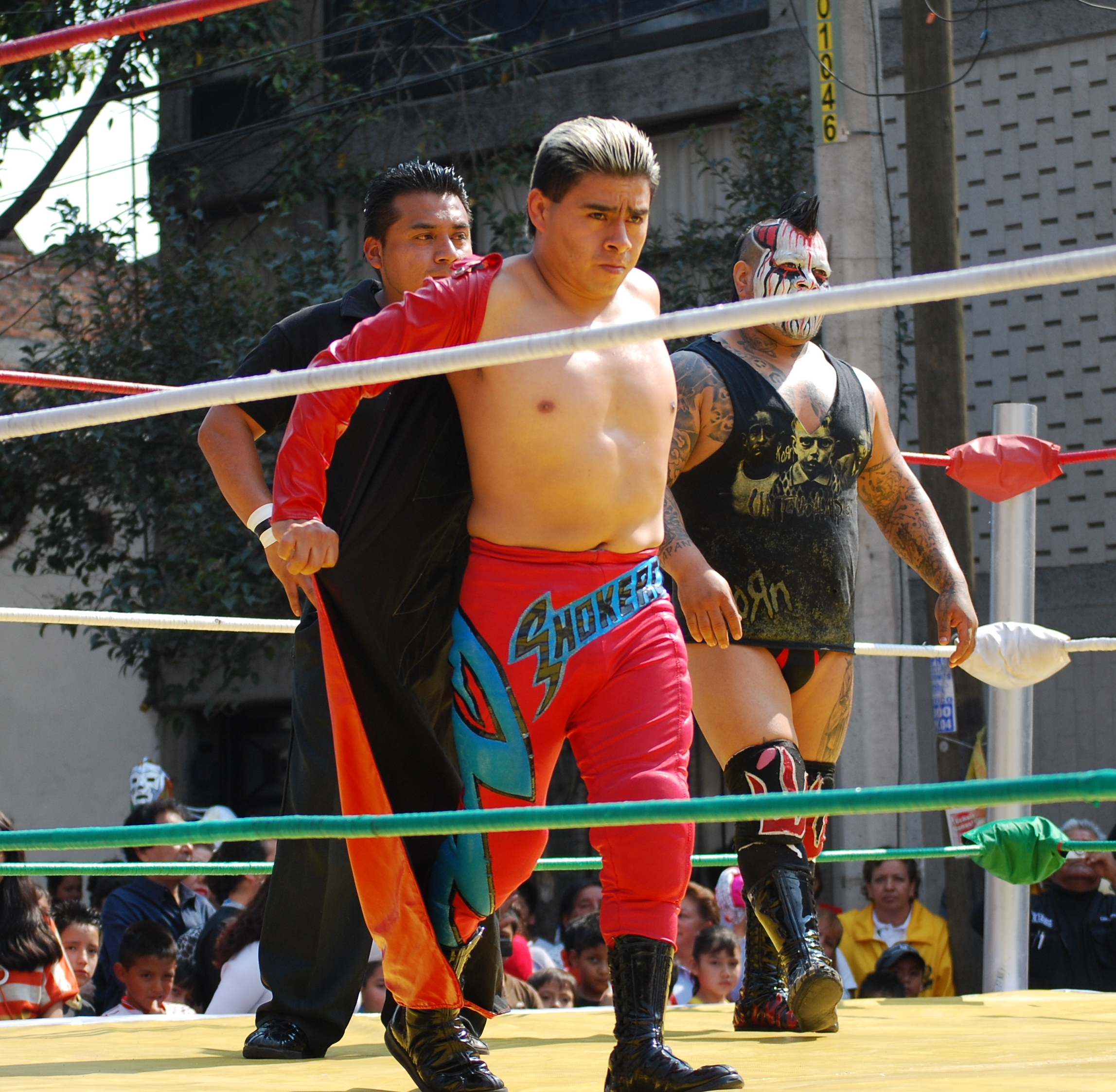 Shockercito and Demus 3:16 at the first match at a CMLL lucha libre event part of Festival Día de Reyes Territorial Obrera Doctores in Mexico City